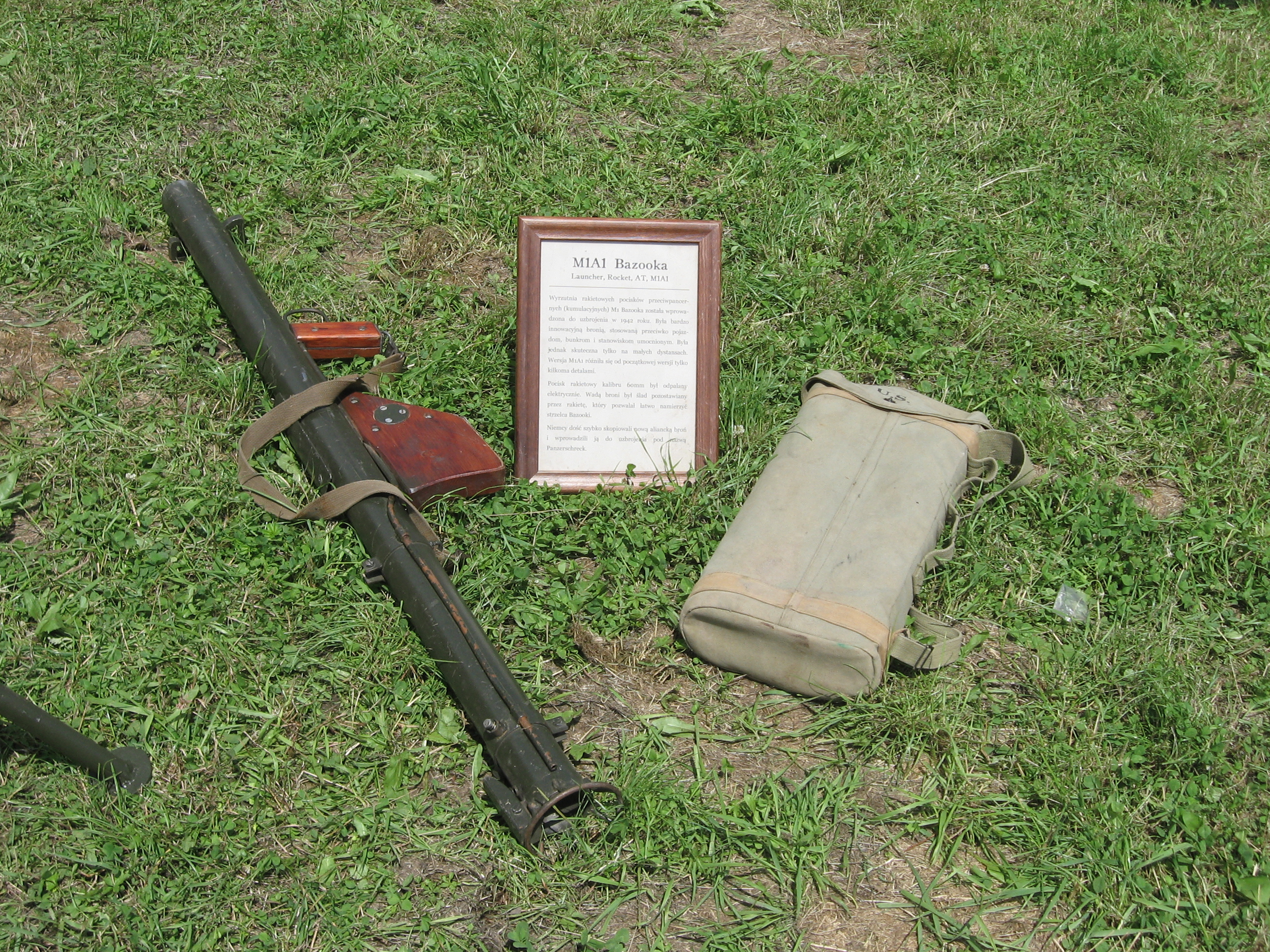 M1A1 Bazooka during the VII Aircraft Picnic in Kraków.